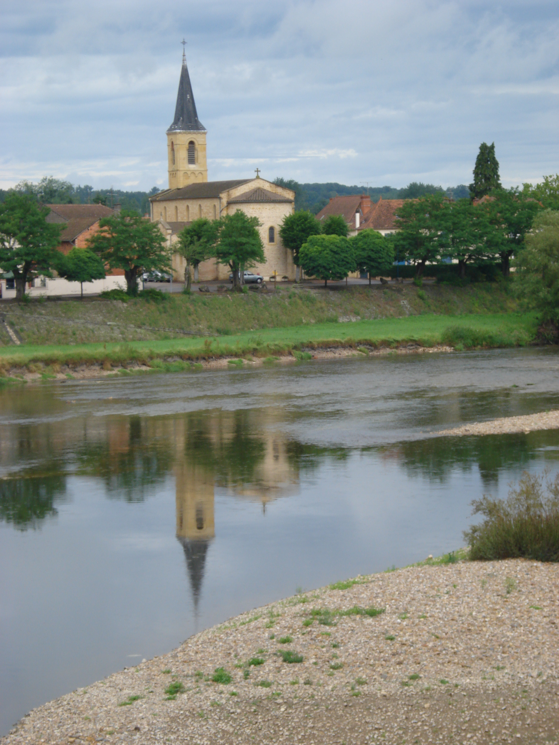 Chambilly (Saône-et-Loire,Fr) general view, the Loire and the church